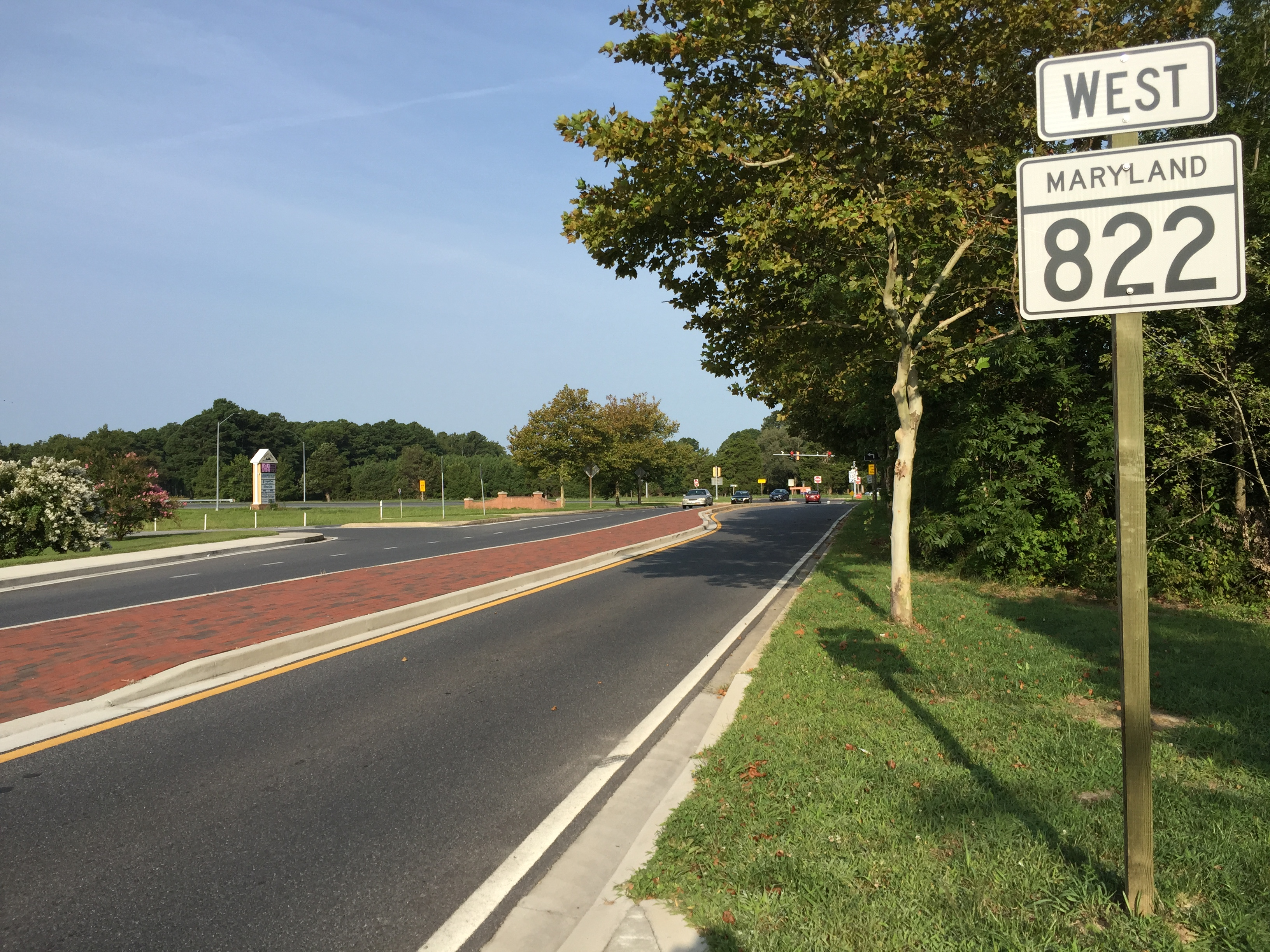 View west along Maryland State Route 822 (University of Maryland Eastern Shore Boulevard) at Maryland State Route 675 (Somerset Avenue) in Princess Anne, Somerset County, Maryland